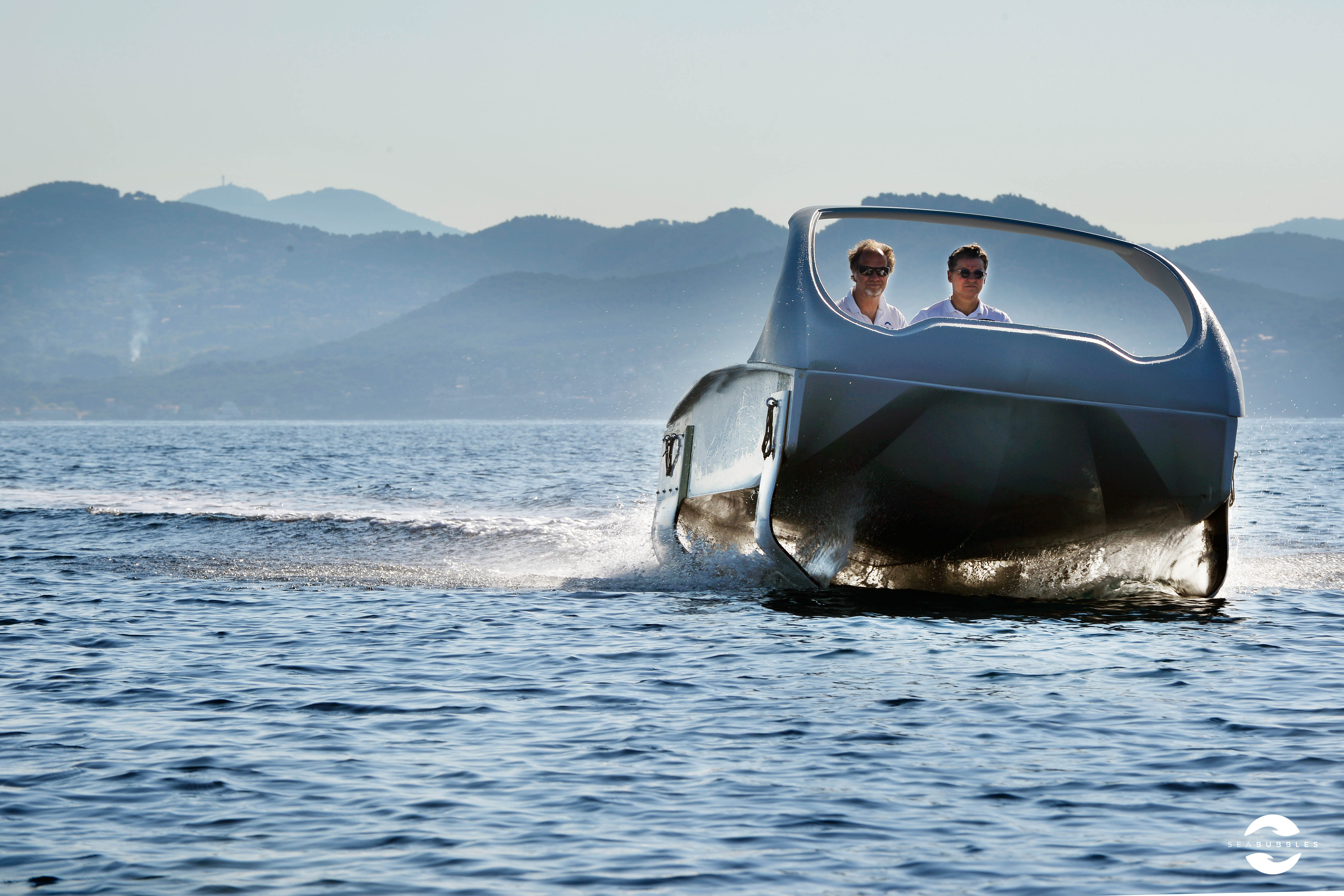 hydrofoil boat